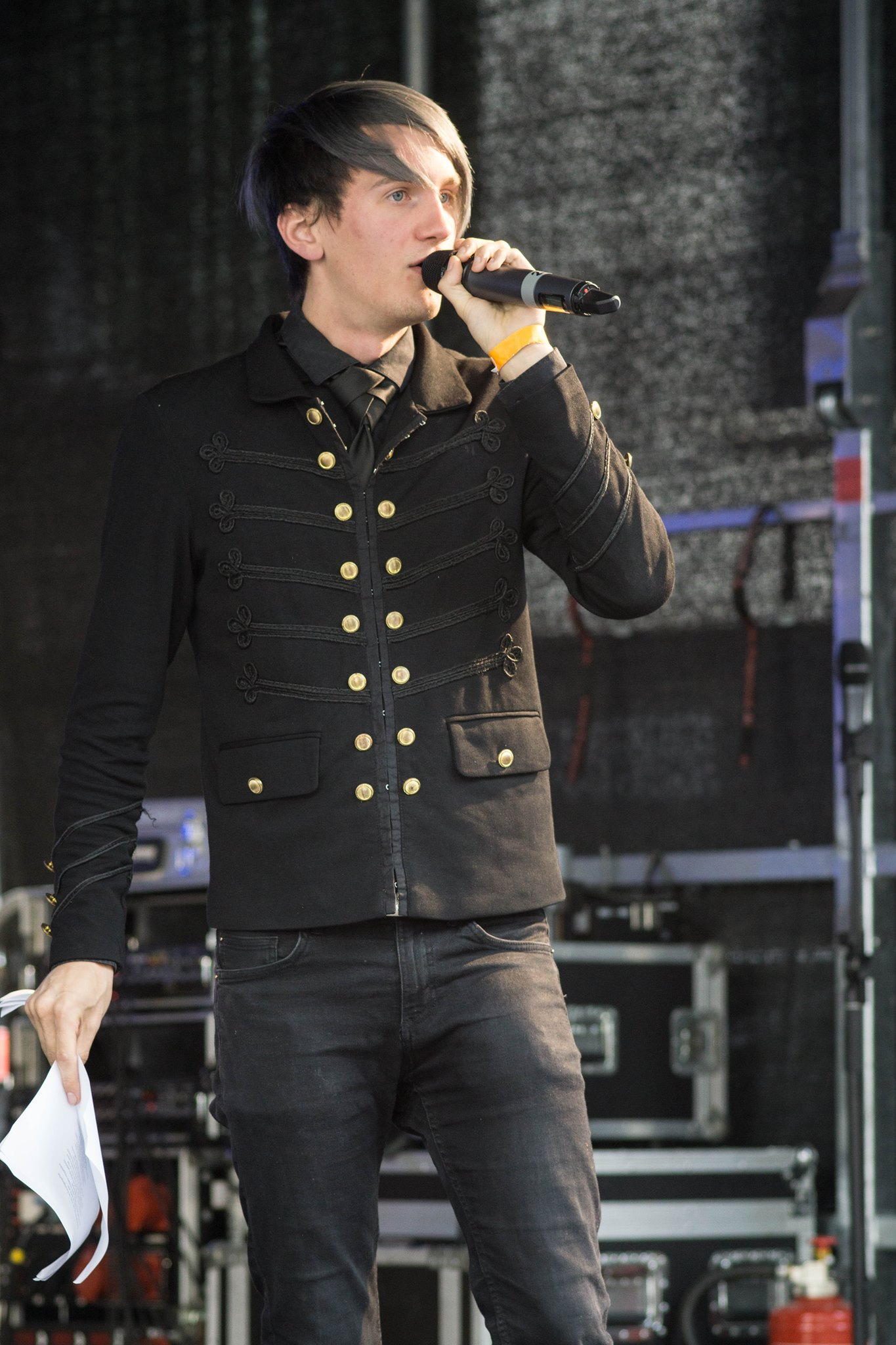 German poet Calvin Kleemann on the stage of "Bochum Total"